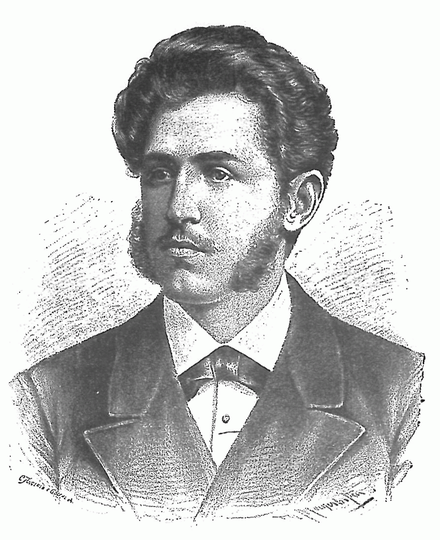 Matko Mandić (1822-1915), Croatian politician, priest and publisher